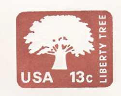 13 cent indicia from United States Postal Service postal stationery envelope designed by Leonard Everett Fisher